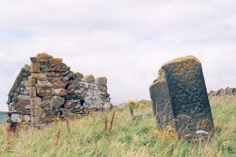 Church ruins, Inishkeel island. Remains of two ancient churches, plus various early Christian carved stones can be seen on this little island, which can be visited at low tide.